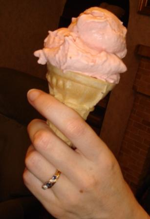 Me holding a strawberry ice cream cone, February 2007. Photo taken by family member, who releases it, through me, into the public domain. PD-self licence selected, per discussion at Commons:Help desk. See here for explanation of the licence. ElinorD 01:24, 3 March 2007 (UTC)